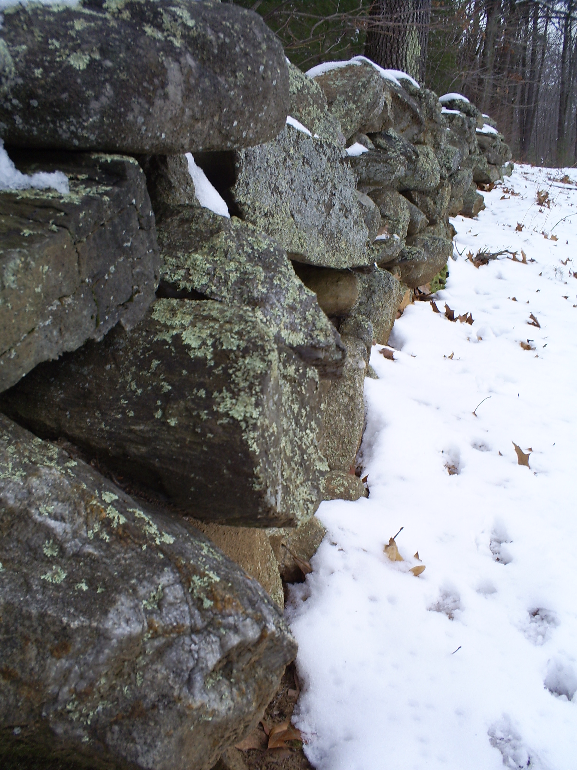 This is the Mending Wall that he wrote his famous poem about.It is located in Derry, New Hampshire at his Farmhouse.